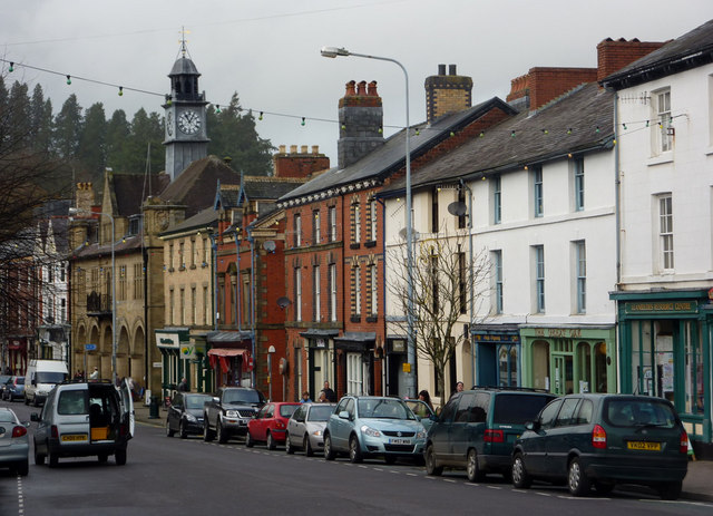 Great Oak Street, Llanidloes Looking along the street from the corner with High Street.